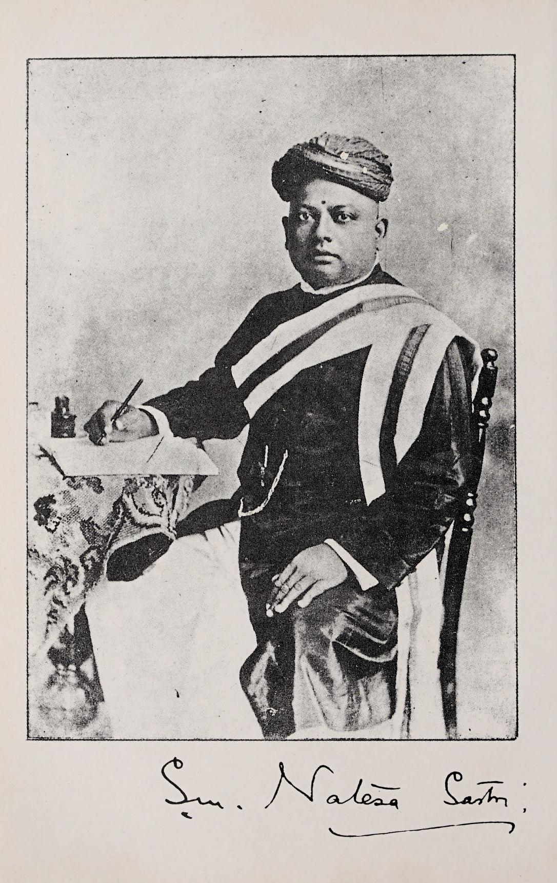 Natesa Sastry before 1903. Picture published in 1903. so must be clicked before that.